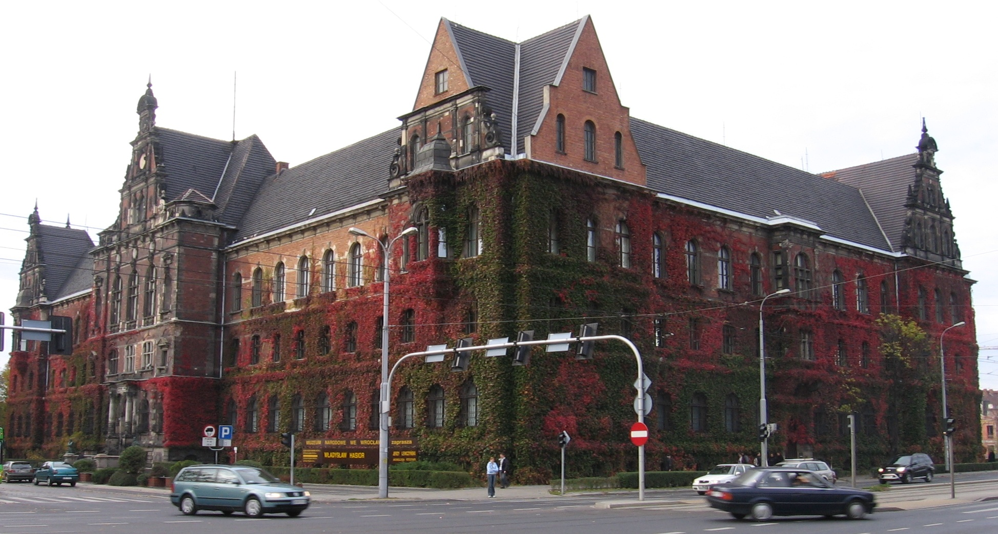 Wrocław, Poland - National Museum, Purkyne street